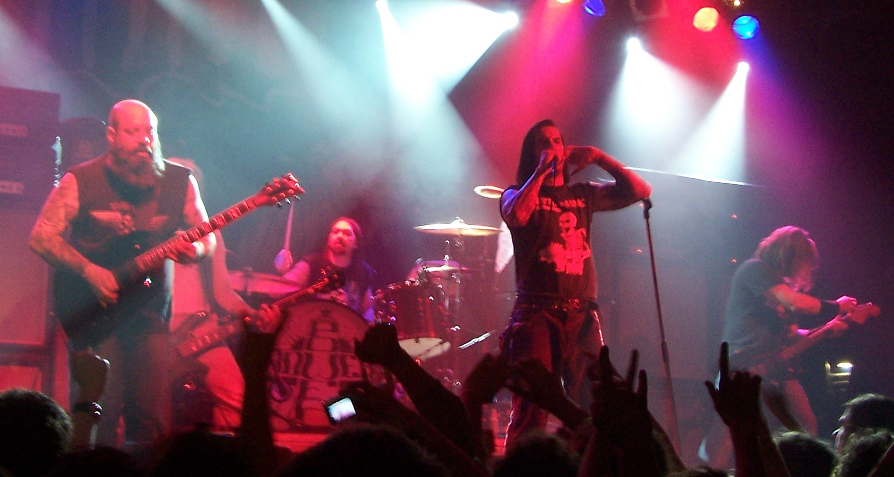 Down concert in Prague, 2008. 03. 28.